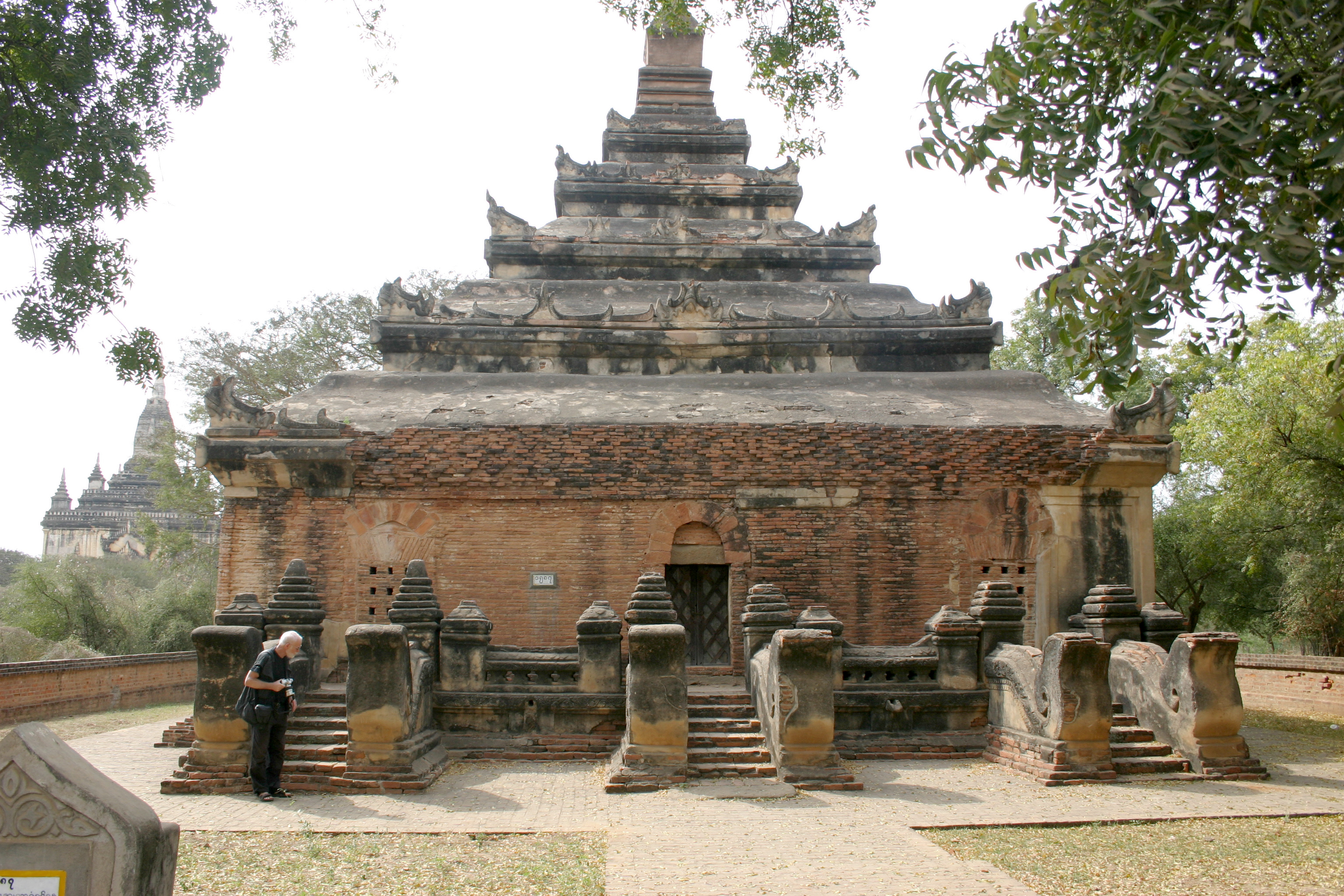 Pitakat Taik library in Bagan in Myanmar.